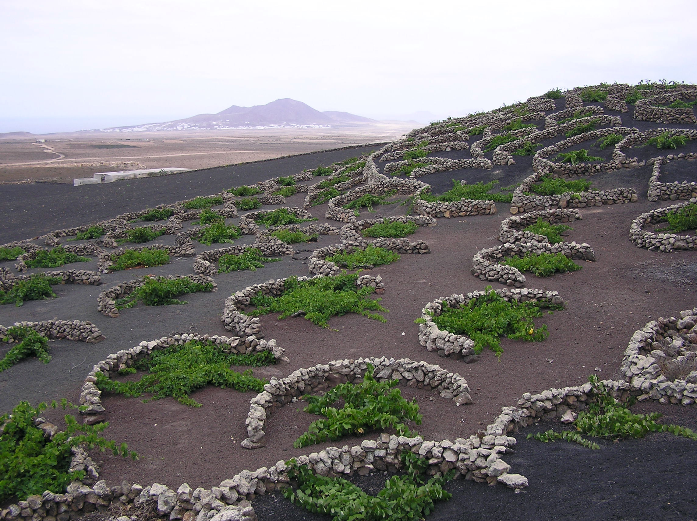 Vines protected by semi-circular dry stone walls from the ever-present wind in the La Geria region of Lanzarote, Canary Islands, Spain. Photographed in July 2006 by Yummifruitbat.